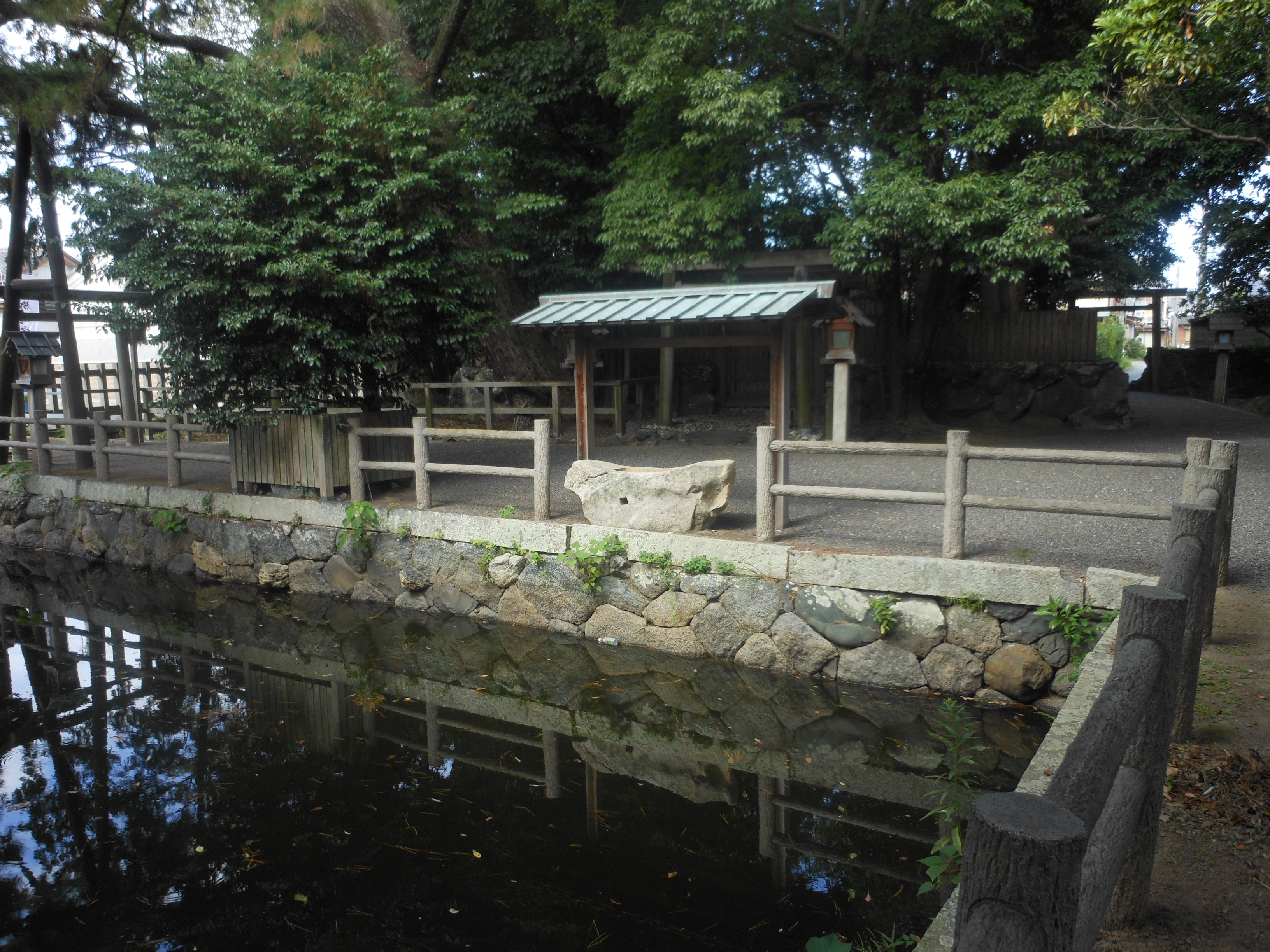 This is the Mike shrine, which is located in Kamiyashiroko, Ise, Mie, Japan.